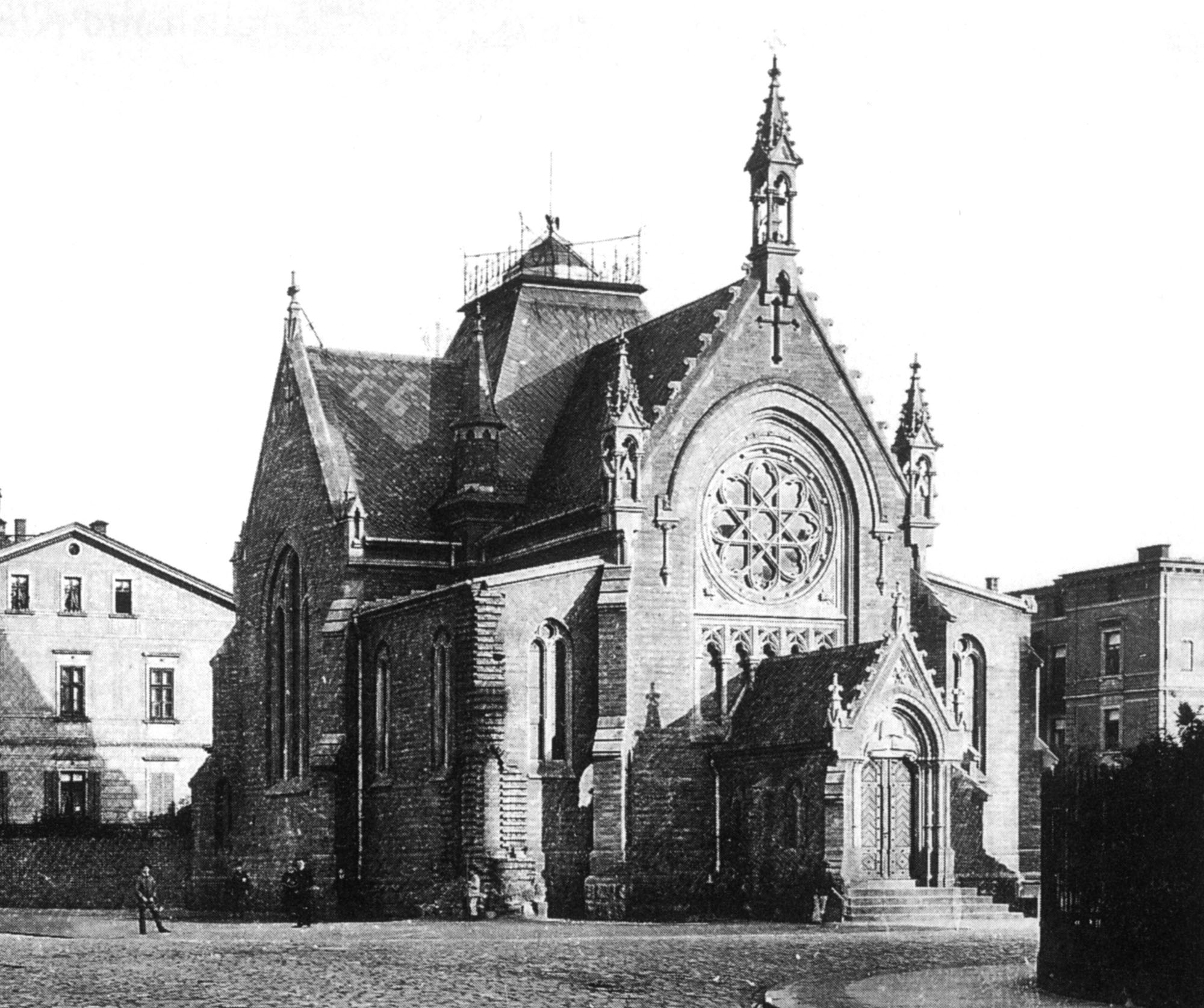 Former Anglo-American church in Leipzig, Sebastian-Bach-Strasse 1 corner Schreberstrasse (Excerpt from File:Anglo-amerikanische Kirche Leipzig.jpg)